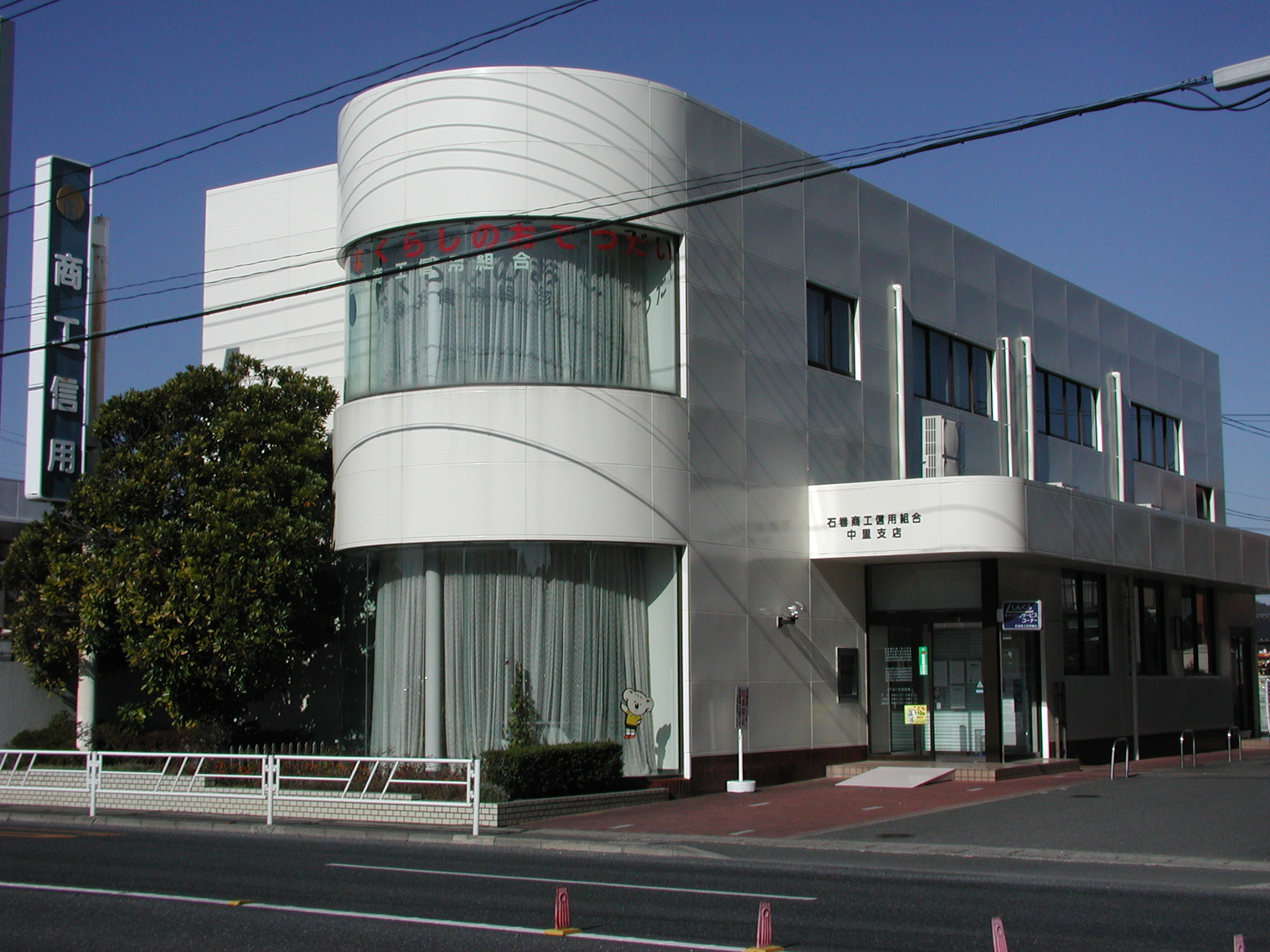 The Ishinomaki Shoko Credit Cooperative Nakasato Branch